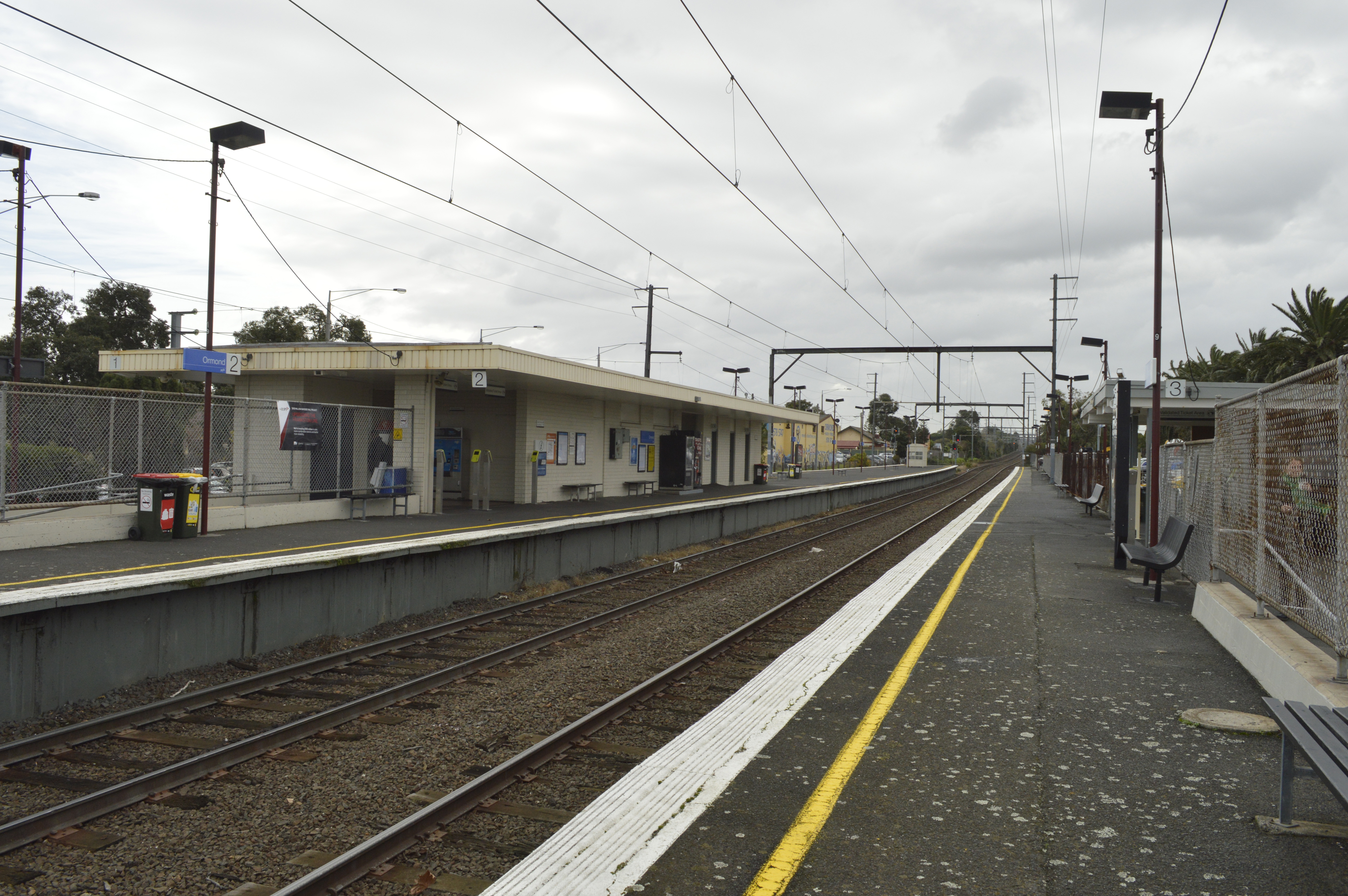 Up view from platform 3